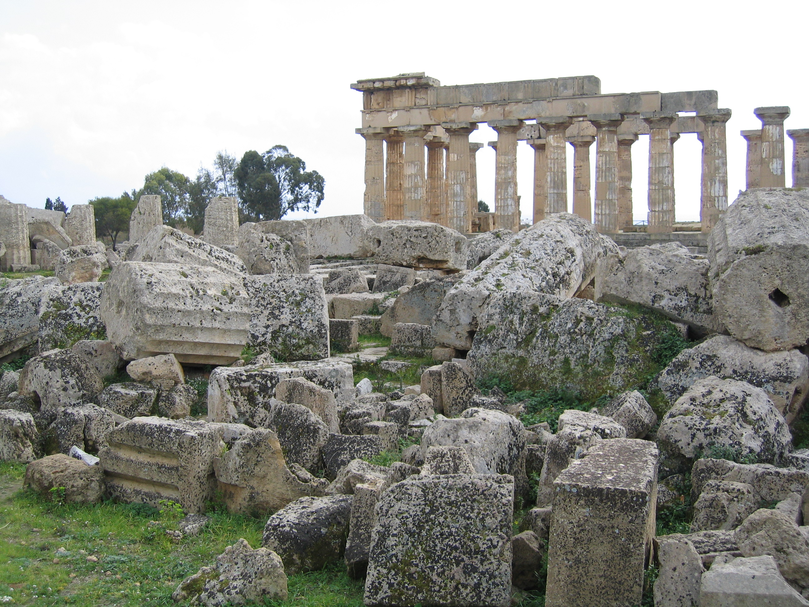 Selinunte, Italy - Temple F in the foreground, and Temple E (of Hera) in the background.